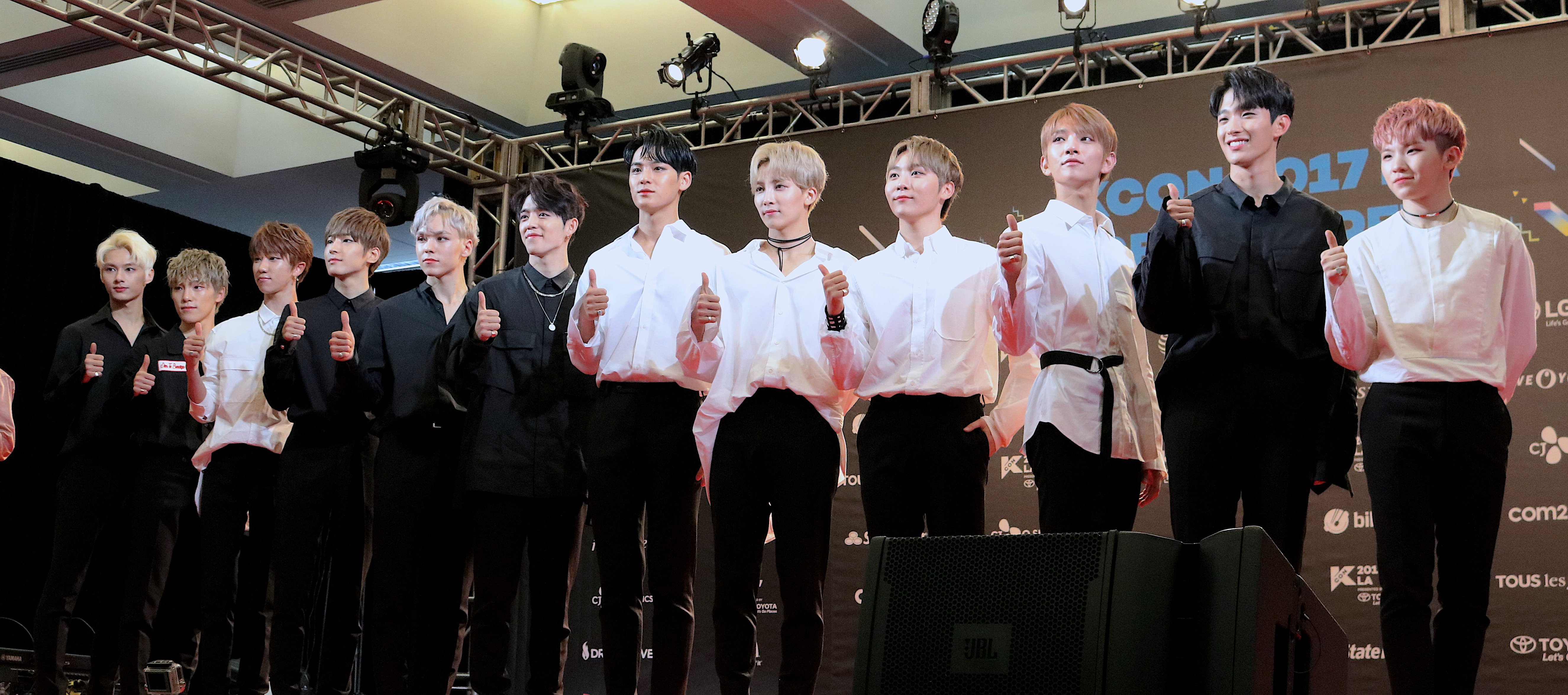 Seventeen at KCon 2017 LA